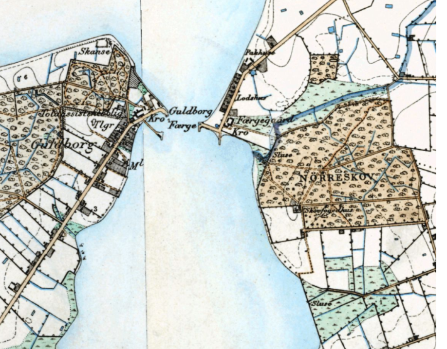 Guldborg ferry in 19th Century